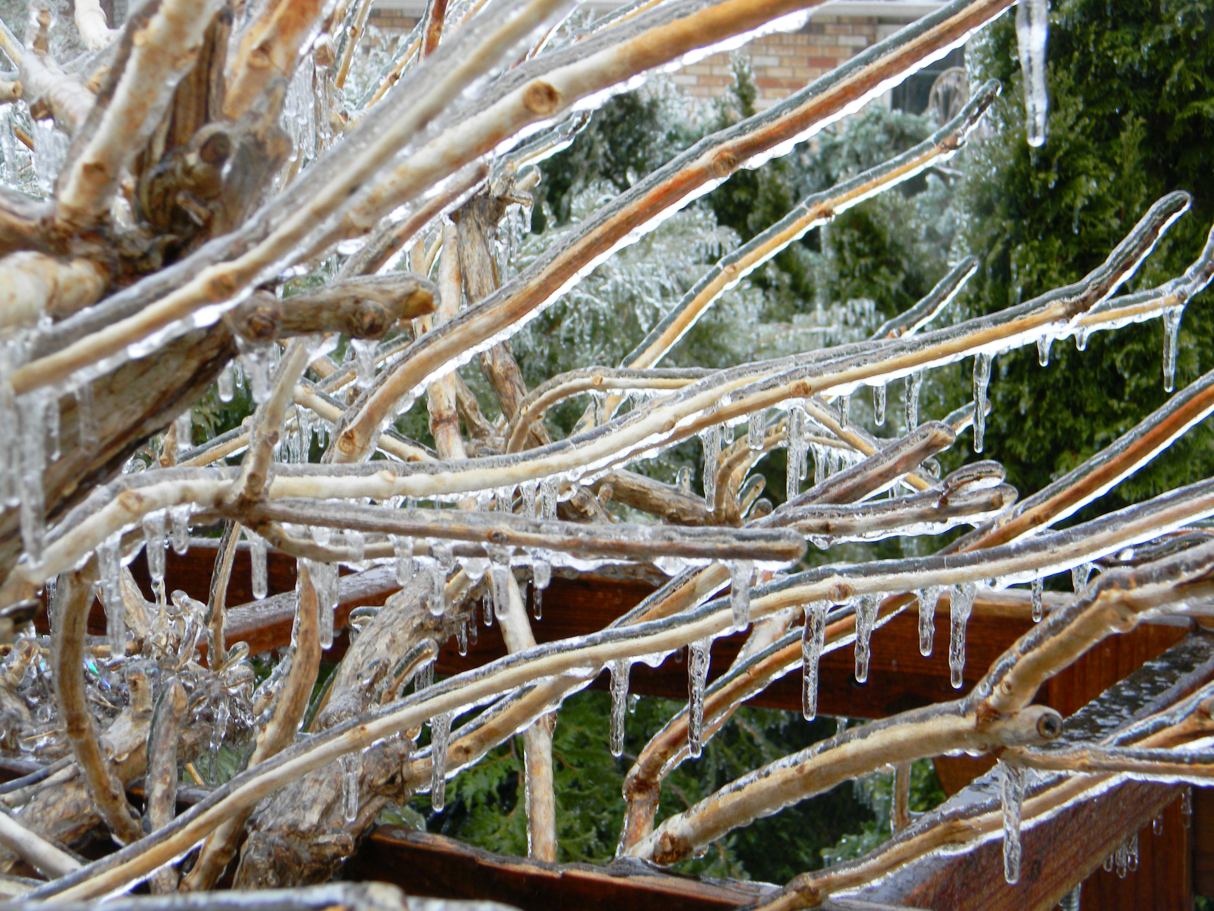 Freezing Rain in Canada 2013